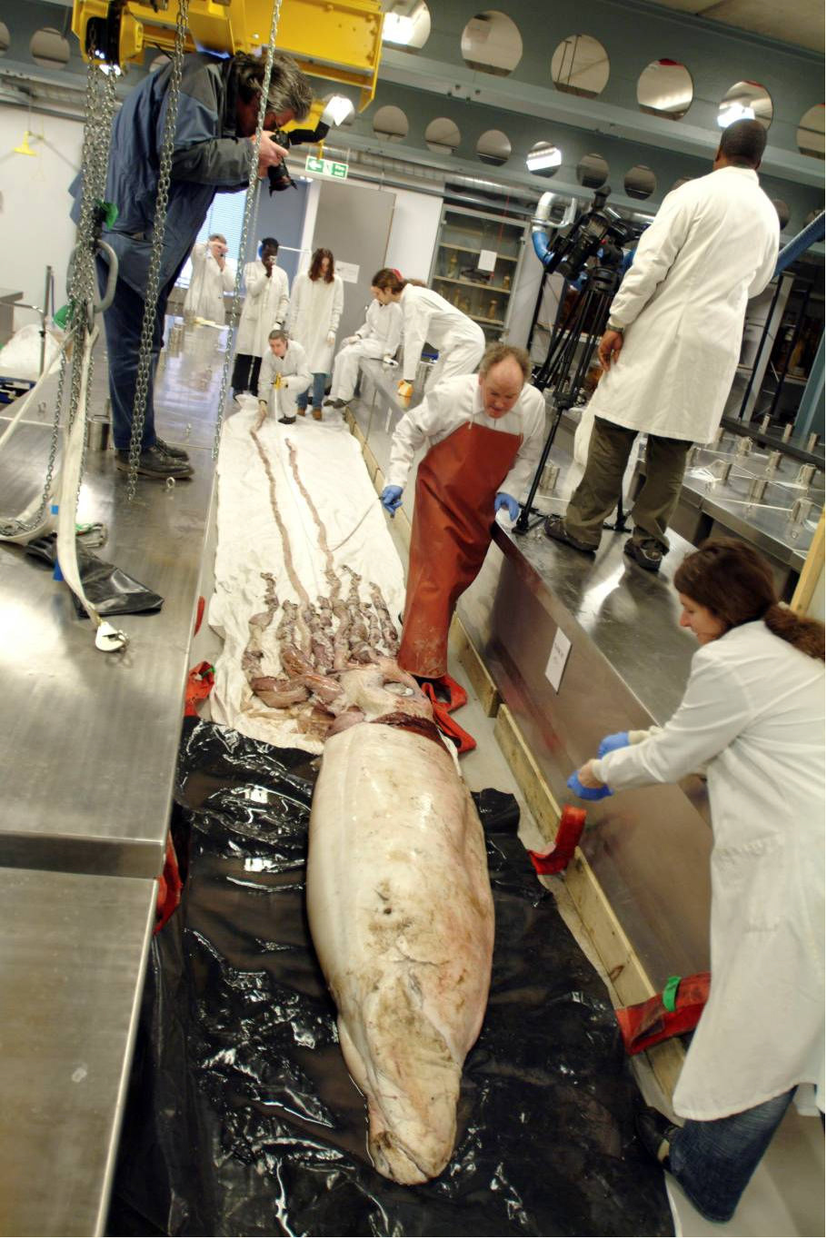 'Archie' the giant squid (Architeuthis dux) being imaged and measured in the Tank Room of the Natural History Museum, London